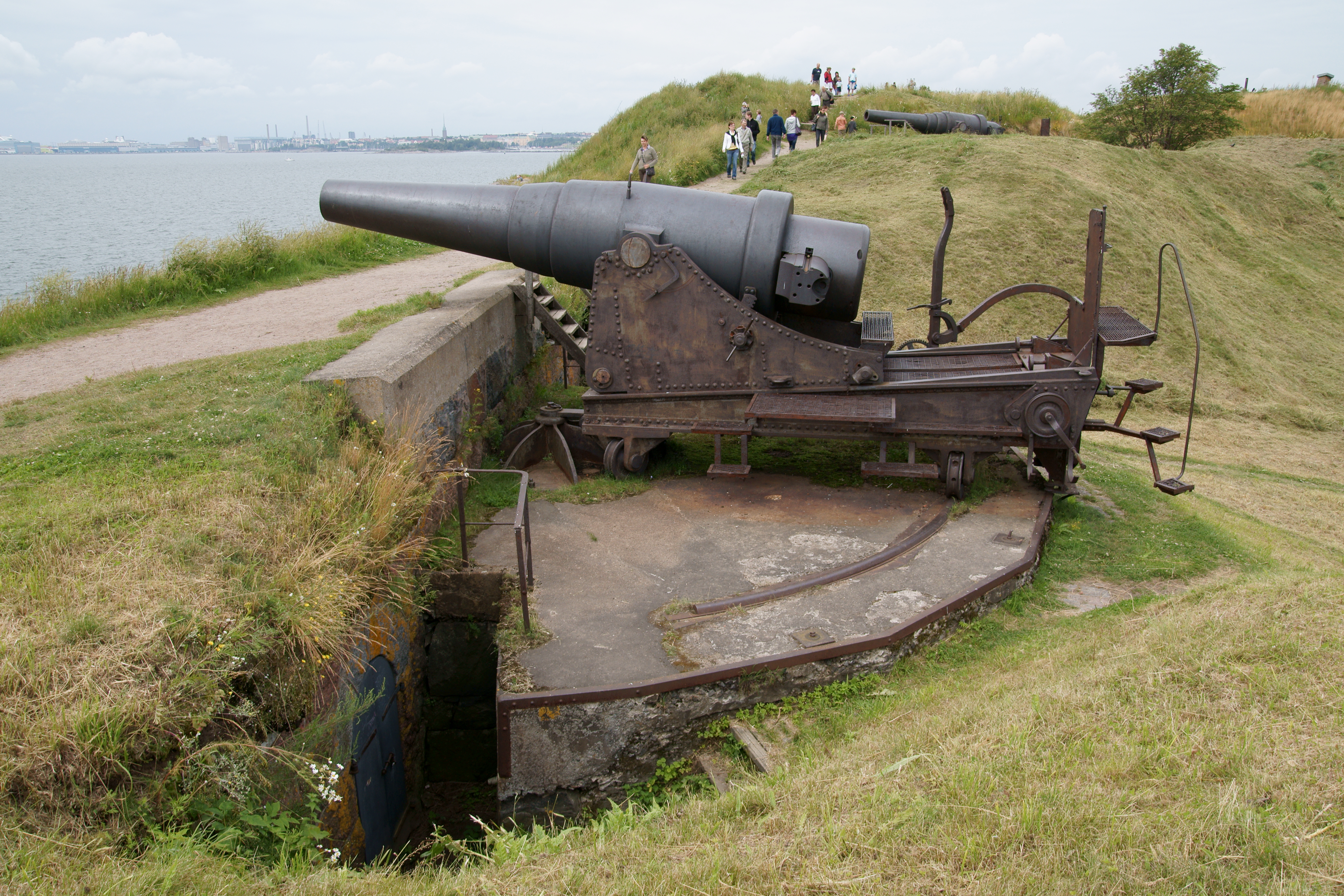 Russian coastal artillery gun, displayed in Kustaanmiekka, Suomenlinna.